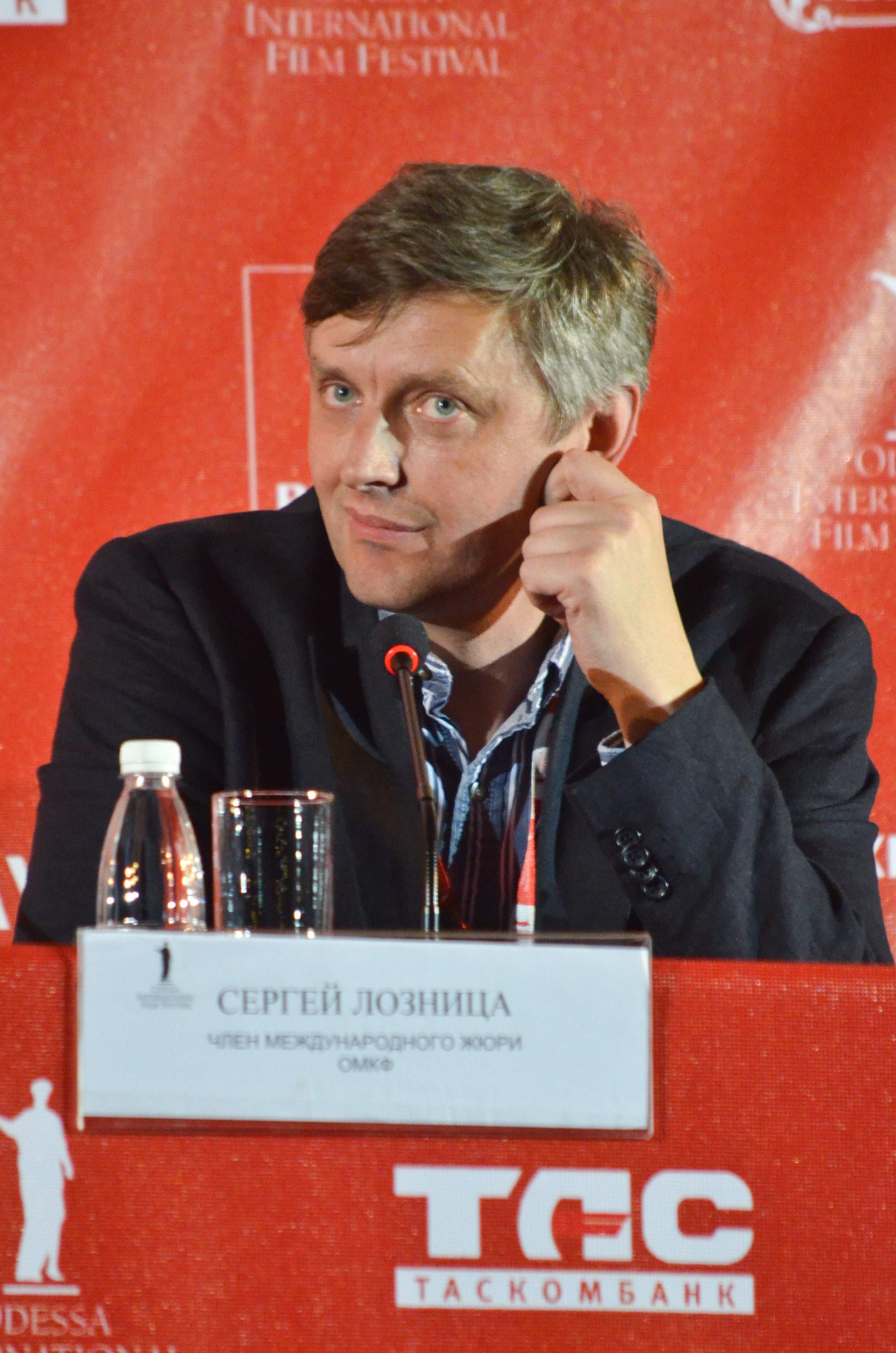 Odessa International Film Festival, 2014.